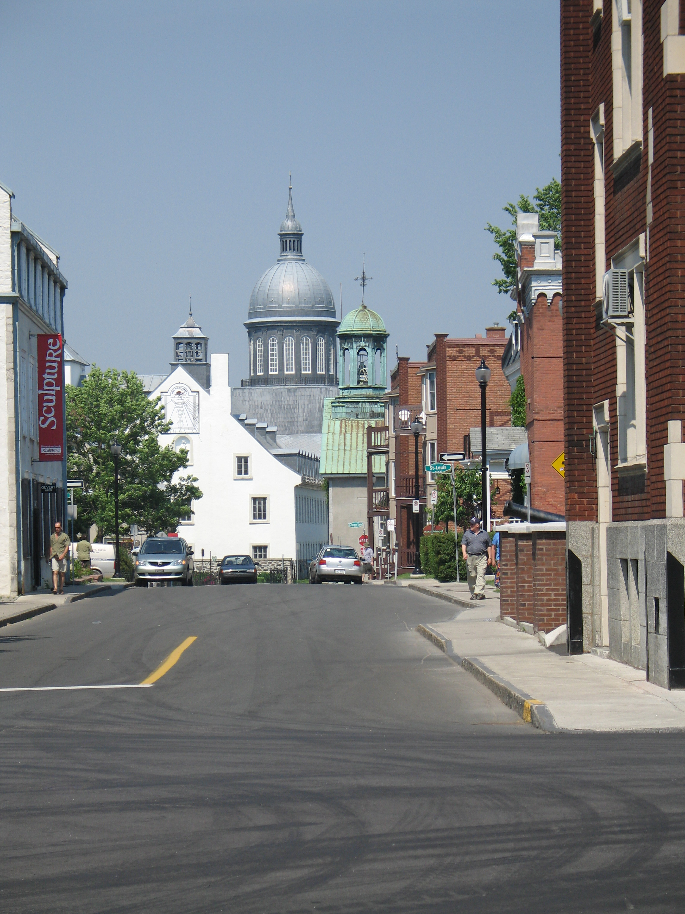 →A typical→ example of the architecture as seen in the Old City of Trois-Rivières, Quebec.